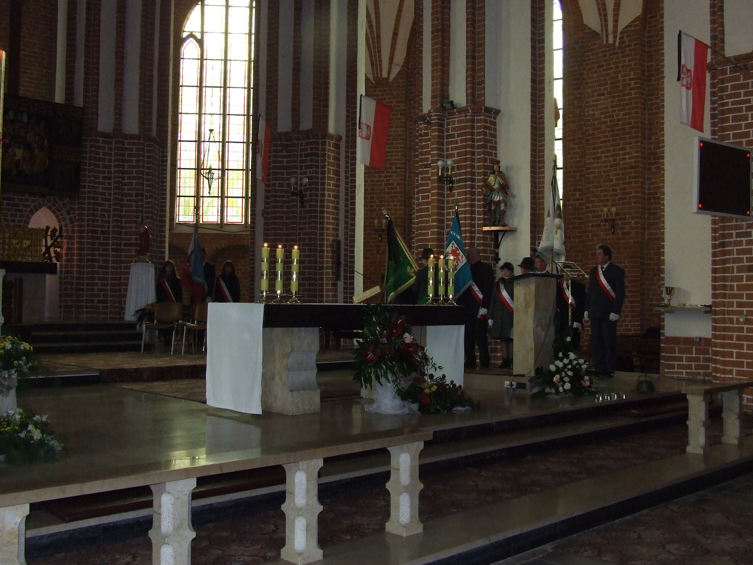 The main altar is prepared for the Eucharist in the intention of the victims of the tragedy near Smolensk.